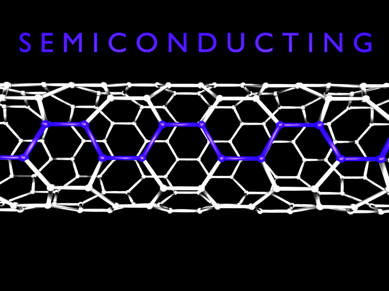 Diagram highlighting the molecular structure which results in a semiconducting carbon nanotube.